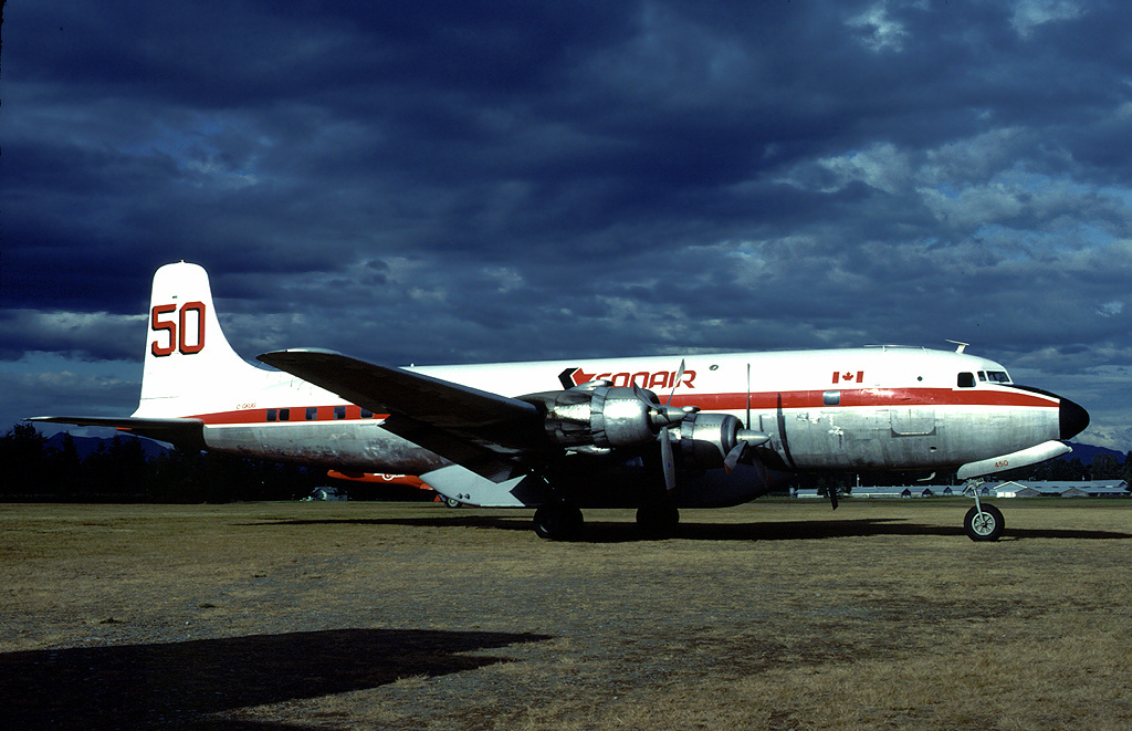 Conair Douglas DC-6 C-GKUG at Abbotsford International Airport